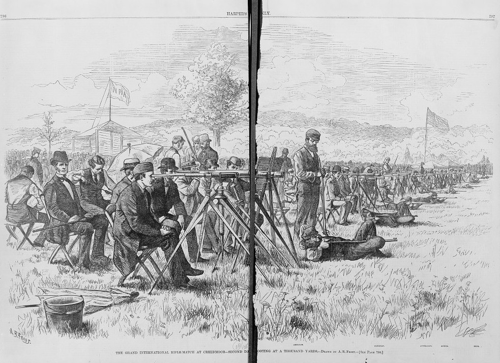 The grand international rifle-match at Creedmoor - second day shooting at a thousand yards / drawn by A.B Frost. Abstract/medium: 1 print (2 pages) : wood engraving.